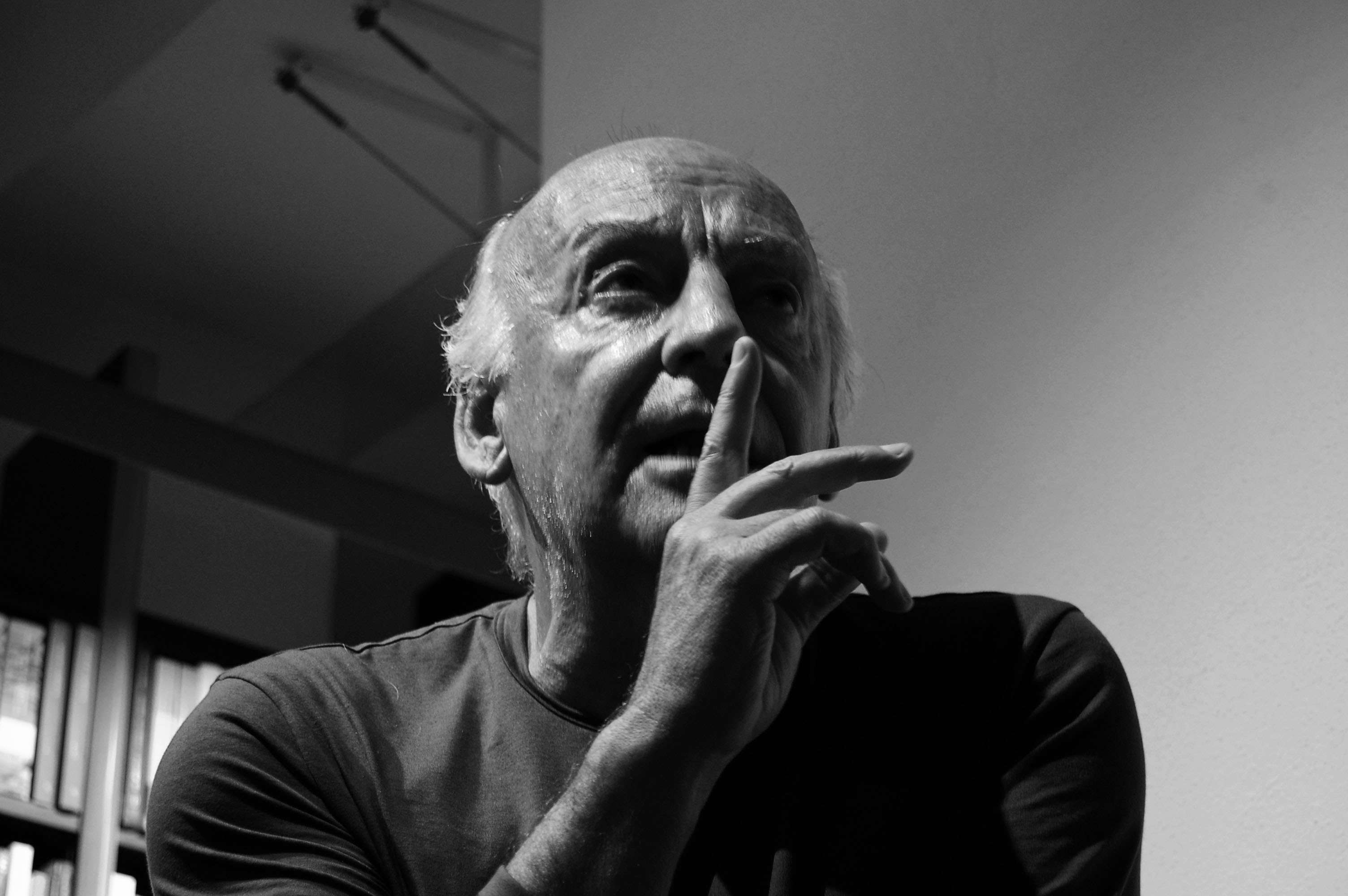 Presentation at Librarsi bookstore, in Vicenza (Italy), on Sept. 11th, 2008. The bookstore doesn't exist anymore.